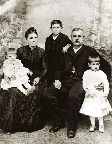 Family of Jovan Skerlić (1877-1914), his mother Persida, father Miloš, sisters Jovanka and Jelena (1887-1960)